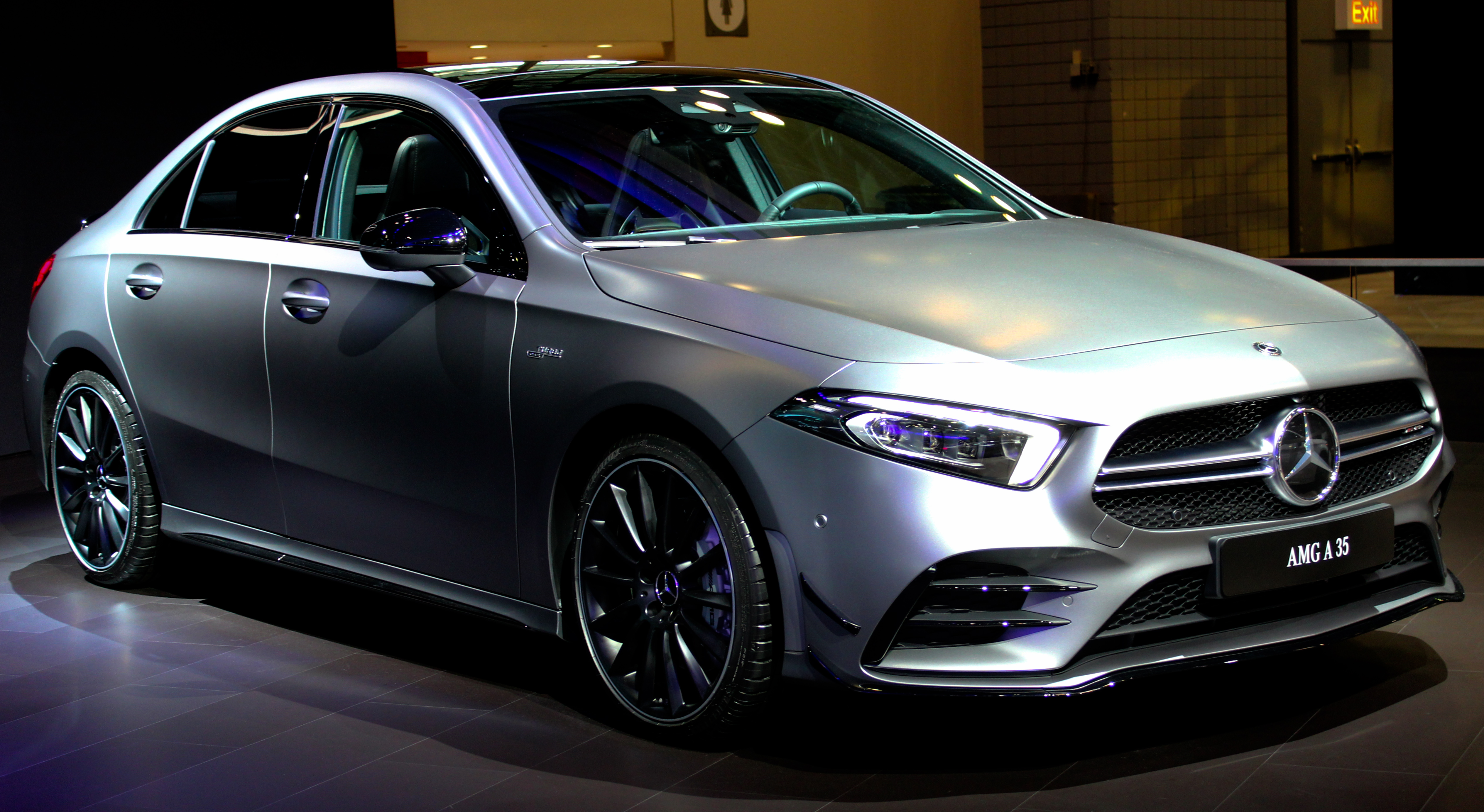 A 2020 Mercedes-AMG A 35 photographed during the 2019 New York International Auto Show, in Hudson Yards, Manhattan, NYC